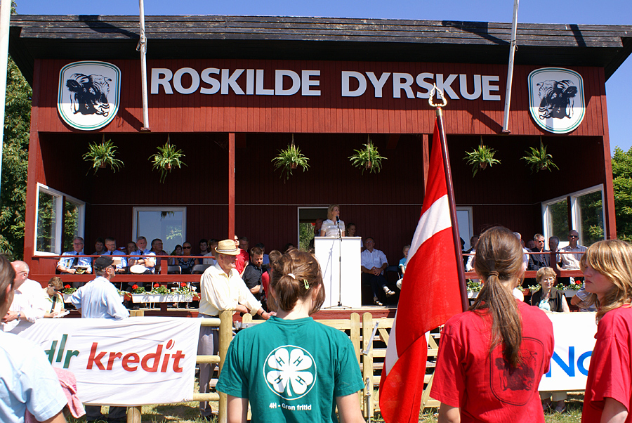 Agricultural show in Roskilde, Denmark. Opening speech by Helle Thorning-Schmidt